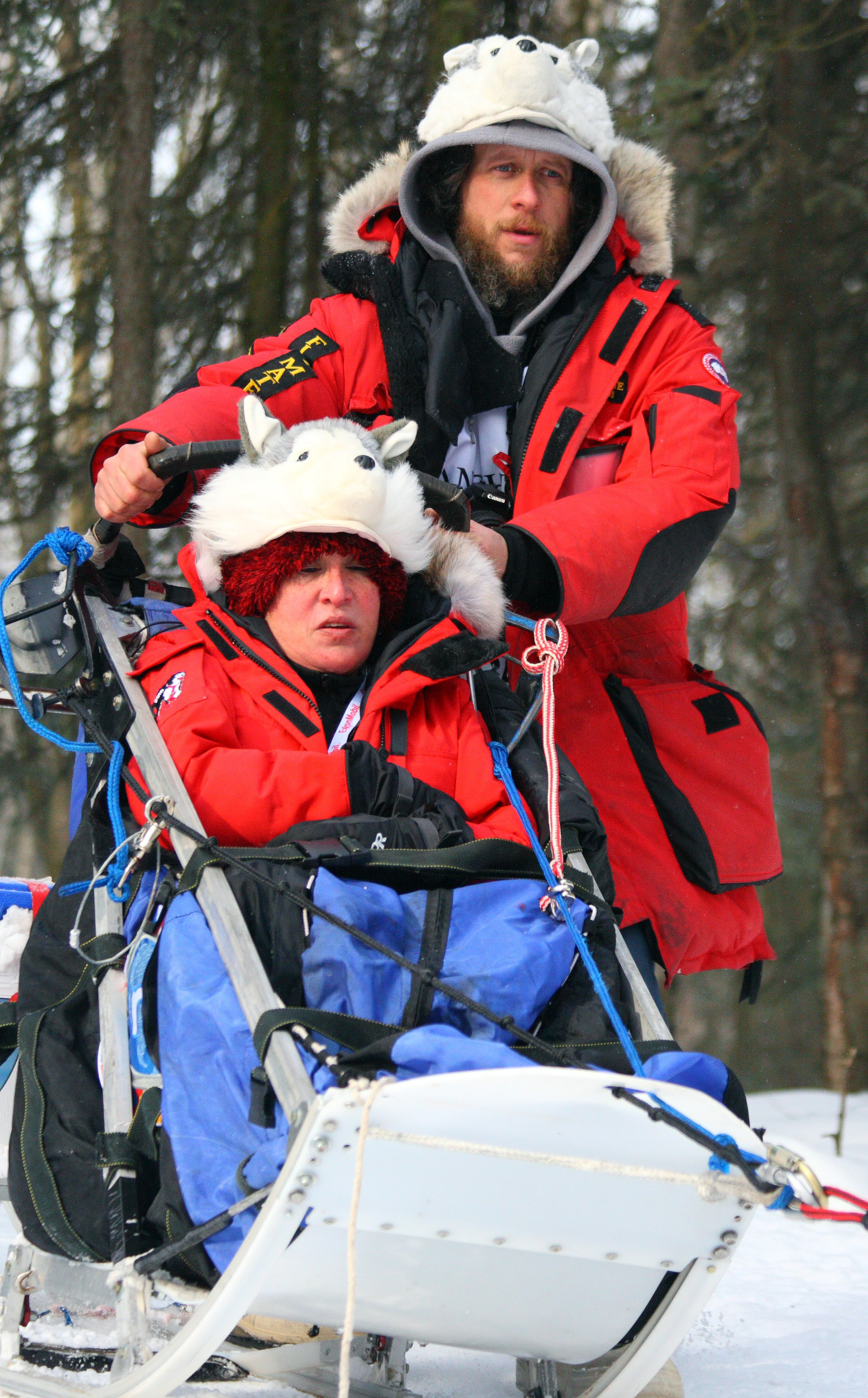 I took these photos on 6 March 2010 at the ceremonial start of the Iditarod dog sled race. The real start is from Willow. The Iditarod is known as "the last great race". It goes 1,100 miles from Willow to Nome through unforgiving terrain and downright nasty weather. I took these photos between Goose Lake and APU. What a great day to be an Alaskan!